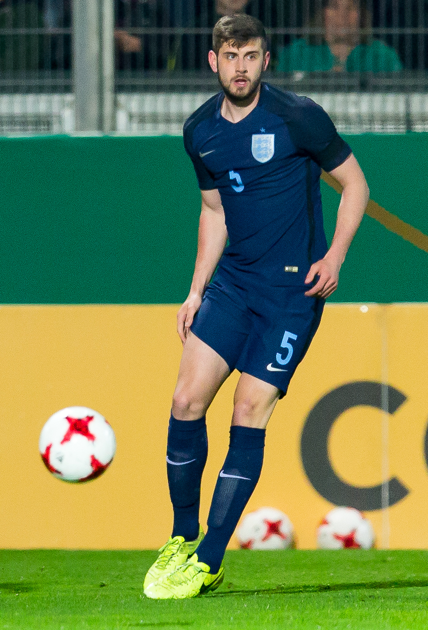 Football U21 Germany vs England (1:0) Team Germany 12 Julian Pollersbeck (1. FC Kaiserslautern) 1 Marvin Schwäbe (Dynamo Dresden) 23 Odisseas Vlachodimos (Panathinaikos Athen) 16 Kevin Akpoguma (Fortuna Düsseldorf) 3 Yannick Gerhardt (VfL Wolfsburg) 5 Matthias Ginter (Borussia Dortmund) 22 Benjamin Henrichs (Bayer 04 Leverkusen) 15 Marc-Oliver Kempf (SC Freiburg) 4 Niklas Stark (Hertha BSC) 13 Jeremy Toljan (1899 Hoffenheim) 2 Mitchell Weiser (Hertha BSC) 18 Nadiem Amiri (1899 Hoffenheim) 10 Maximilian Arnold (VfL Wolfsburg) 25 Hany Mukhtar (Brøndby IF) 7 Max Meyer (FC Schalke 04) 19 Janik Haberer (SC Freiburg) 21 Gideon Jung (Hamburger SV) 20 Levin Öztunali (1. FSV Mainz 05) 17 Maximilian Philipp (SC Freiburg) 9 Davie Selke (RB Leipzig) 27 Thilo Kehrer (FC Schalke 04) Team England 1 Jordan Pickford (Sunderland) 2 Mason Holgate (Everton) 13 Angus Gunn (Manchester City) 21 Christian Walton (Brighton) 16 Kortney Hause (Wolverhampton) 5 Jack Stephens (Southampton) 15 Rob Holding (Arsenal) 12 Joe Gomez (Liverpool) 3 Ben Chilwell (Leicester City) 6 Alfie Mawson (Swansea City) 22 Sam McQueen (Southampton) 4 Nathaniel Chalobah (Chelsea) 14 Will Hughes (Derby County) 20 Ruben Loftus-Cheek (Chelsea) 10 Lewis Baker (Vitesse Arnheim) 18 John Swift (Reading) 23 Jack Grealish (Aston Villa) 8 Harry Winks (Hotspur) 19 Cauley Woodrow (Fulham) 9 Tammy Abraham (Bristol City) 17 Solly March (Brighton) 11 Jacob Murphy (Norwich) during Fussball U21 Deutschland vs England at Brita-Arena, Wiesbaden, Hessen, Germany on 2017-03-24, Photo: Sven Mandel